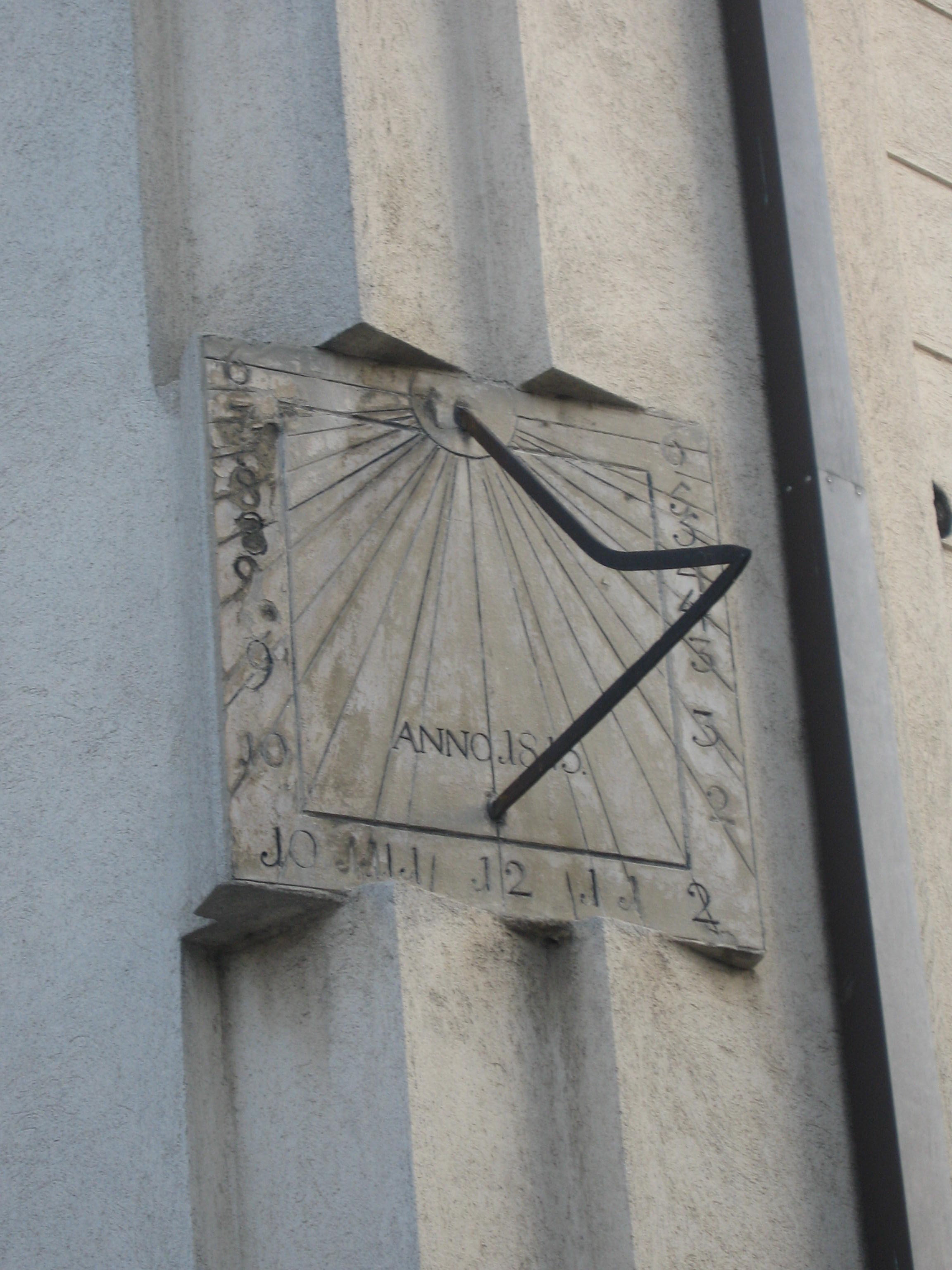 Catedrala Adormirea Maicii Domnului din Iaşi